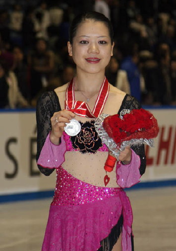 Akiko Suzuki(JPN) at the 2008 NHK Trophy.